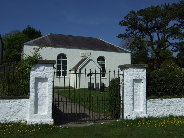 Bethesda, Burry Green Bethesda Chapel was built in 1813 or 1814 by Diana, Baroness Barham (d. 1823), who also built and established other chapels and schools in the area. During the first years, the Chapel was supplied by ministers of the Countess of Huntingdon's Connexion, staying for about two months at a time. The Rev. William Griffiths, the 'father' of Calvinistic Methodism in Gower, was appointed minister of the Chapel in 1824 under the patronage of Lord Barham, and remained there until his death. The Rev. William Griffiths (1788-1861) was a Calvinistic Methodist minister, born at Clydau, Pembrokeshire. In 1807 he was forced to enlist in the militia and was influenced by the Methodists whom he later joined. In 1817, at the request of Lady Barham, he was sent as a missionary to the English-speaking community of Gower where he founded several churches. He is known as the 'Apostle of Gower'.